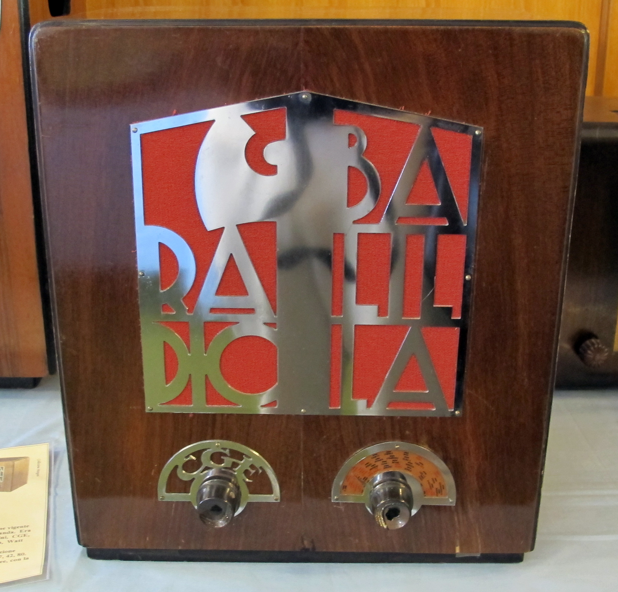 Antique radios amateurs exhibition (Florence 2014)